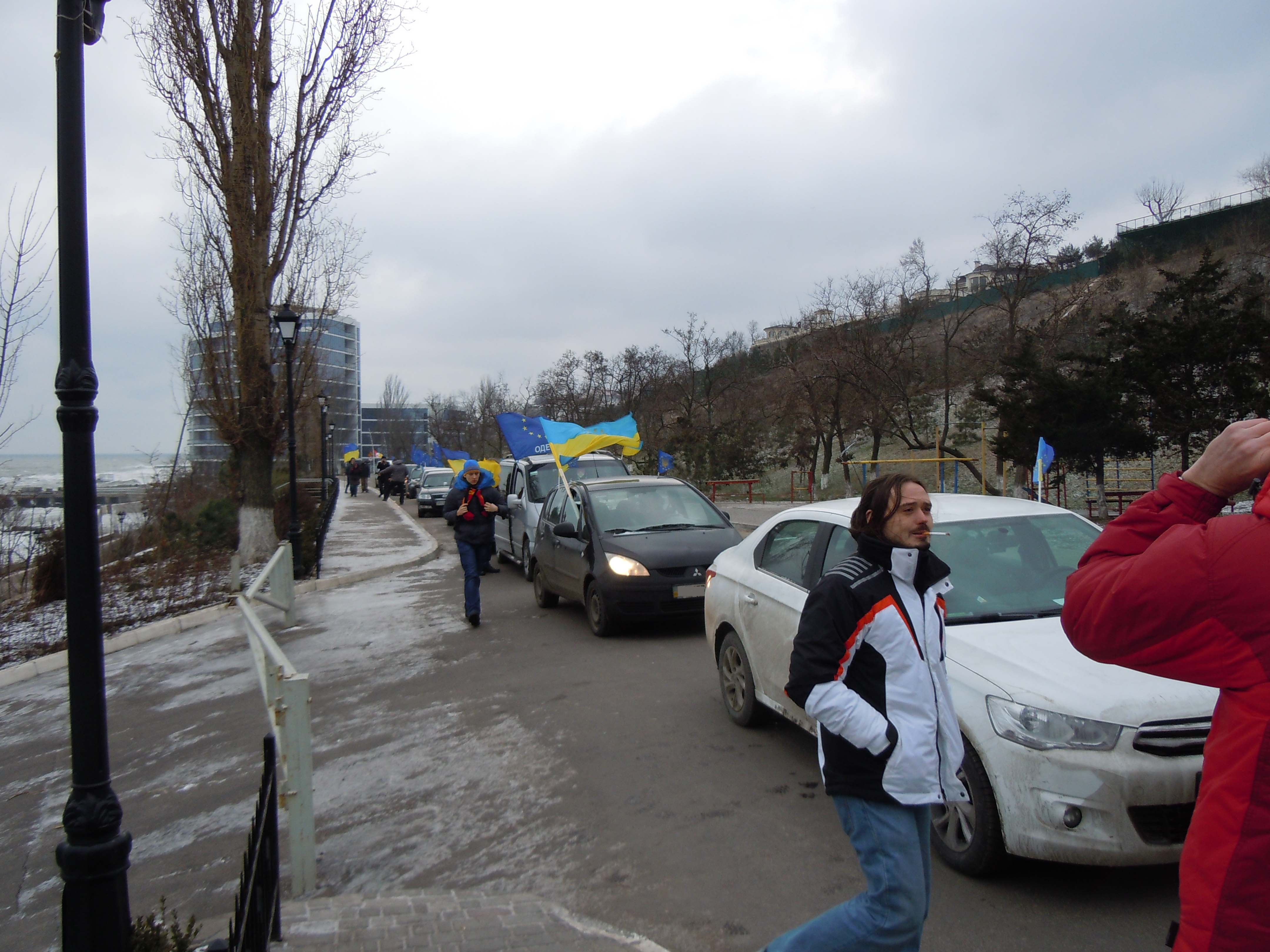 The procession Odessa AutoMaidan near the "Castle" of Serhiy Kivalov, 11 Station of Velykyi Fontan, Odessa